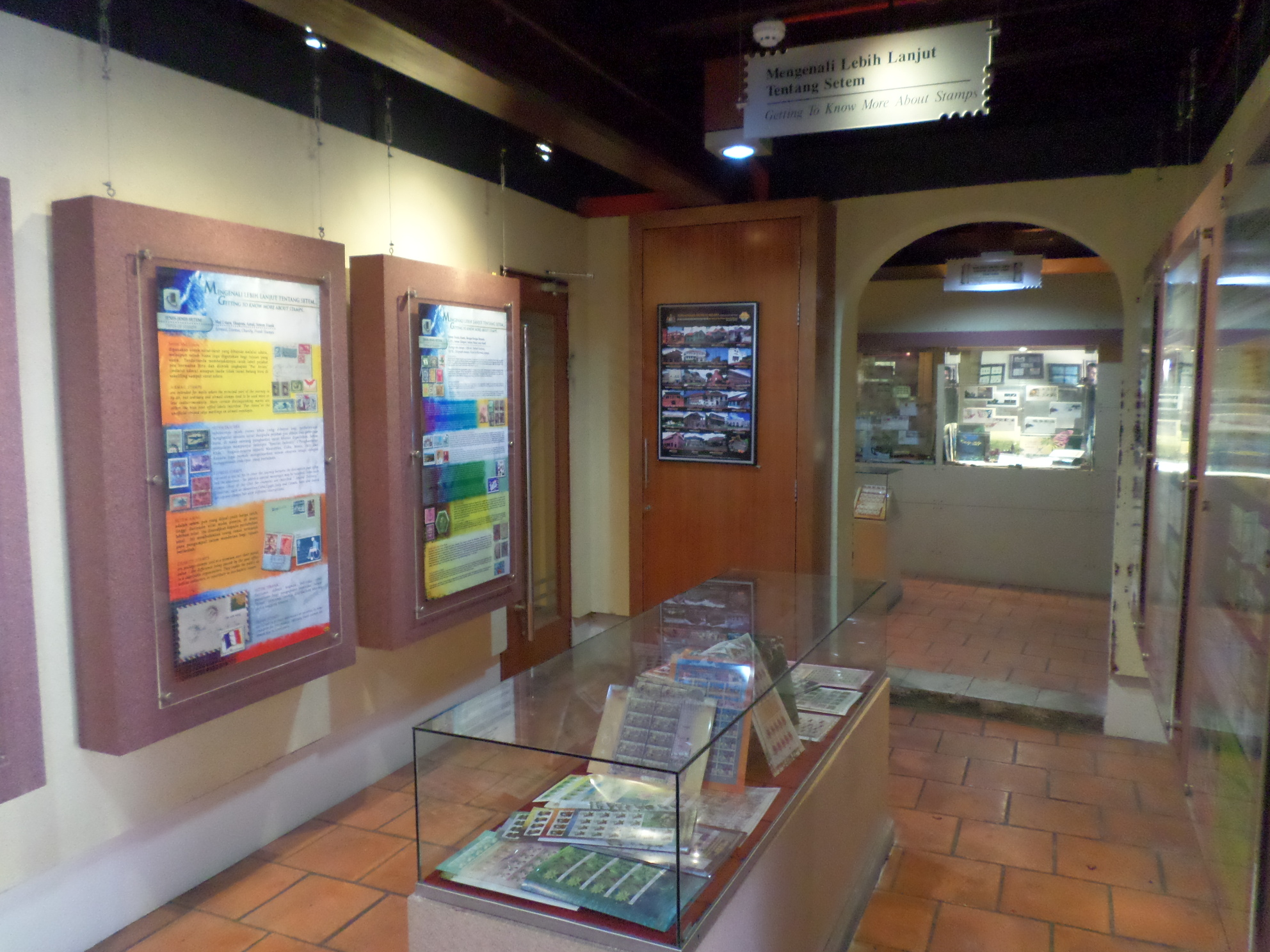 Malacca Stamp Museum, Malacca, MalaysiaBahasa Melayu: Muzium Setem Melaka, Melaka, Malaysia